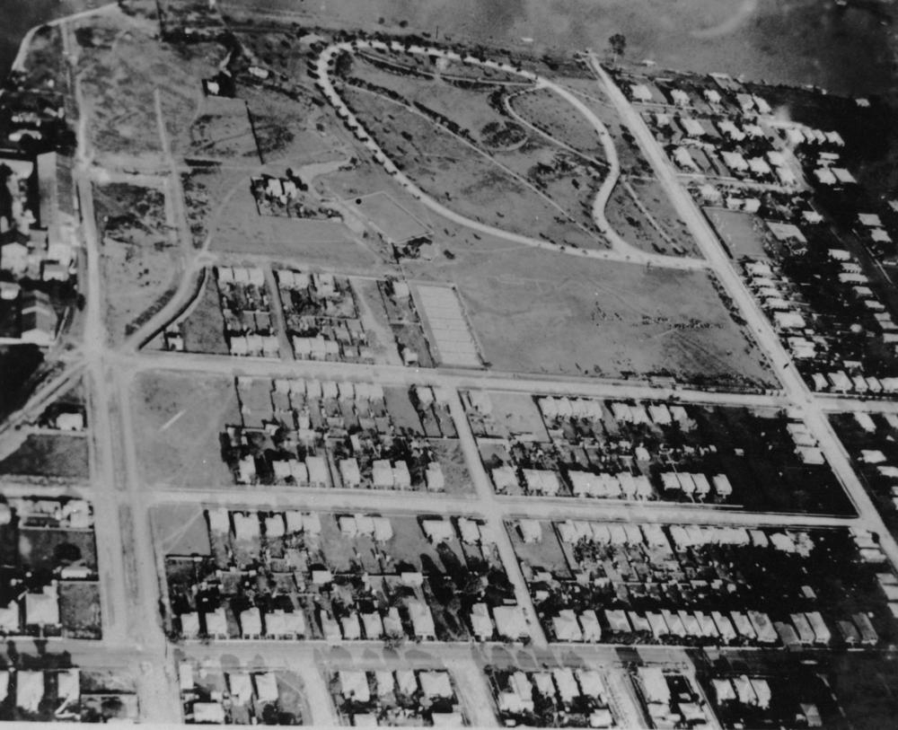 Creator: Unidentified Location: Brisbane, Queensland Description: This aerial view of New Farm shows New Farm Park in centre, with the circular road way . A small area of the Brisbane River can be seen next to the park (top of photograph). On the right of the park is Brunswick Street. The track-like street on the far left is James Street. Sydney Street runs across the photograph and forms the third border of the park. Residential housing is shown. View this image at the State Library of Queensland: Information about State Library of Queensland’s collection